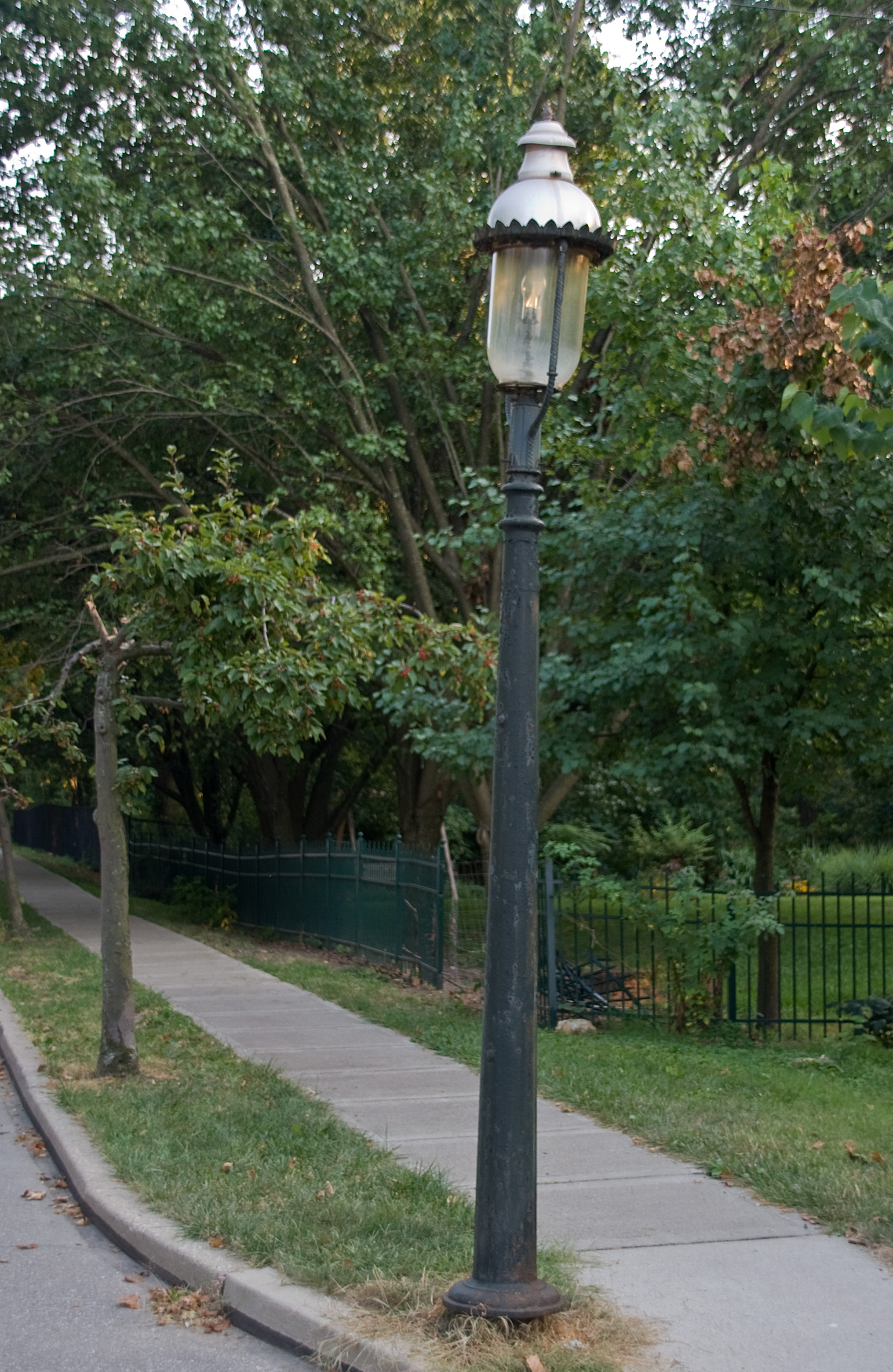 Gas Light in Cincinnati neighborhood of Clifton. Taken by Greg Hume